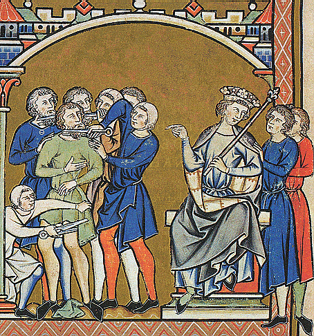 Hanun humiliates David's ambassadors, by having their tunics and beards slashed.